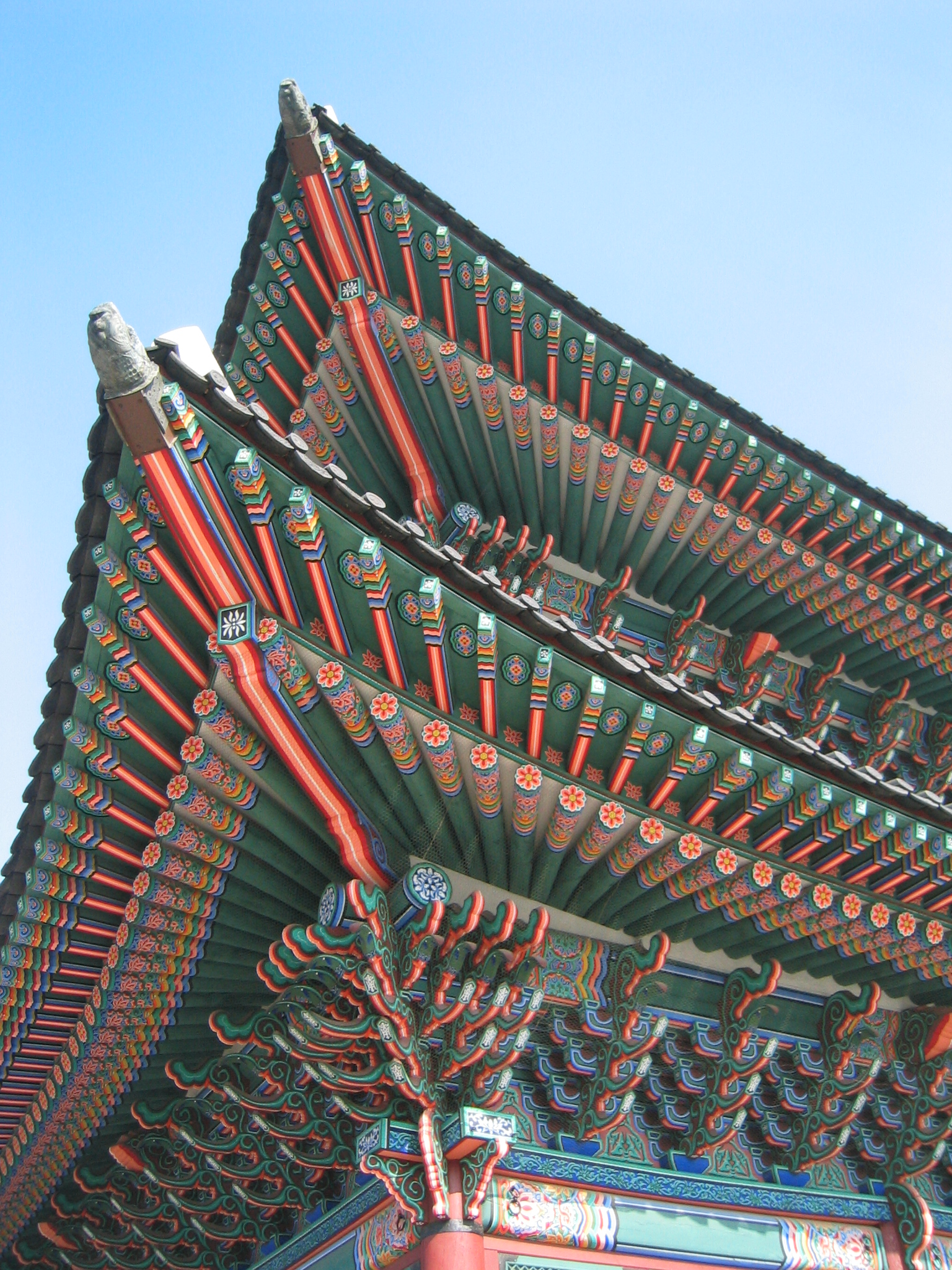 Gyeongbokgung, with Dancheong or traditionally painted eaves.